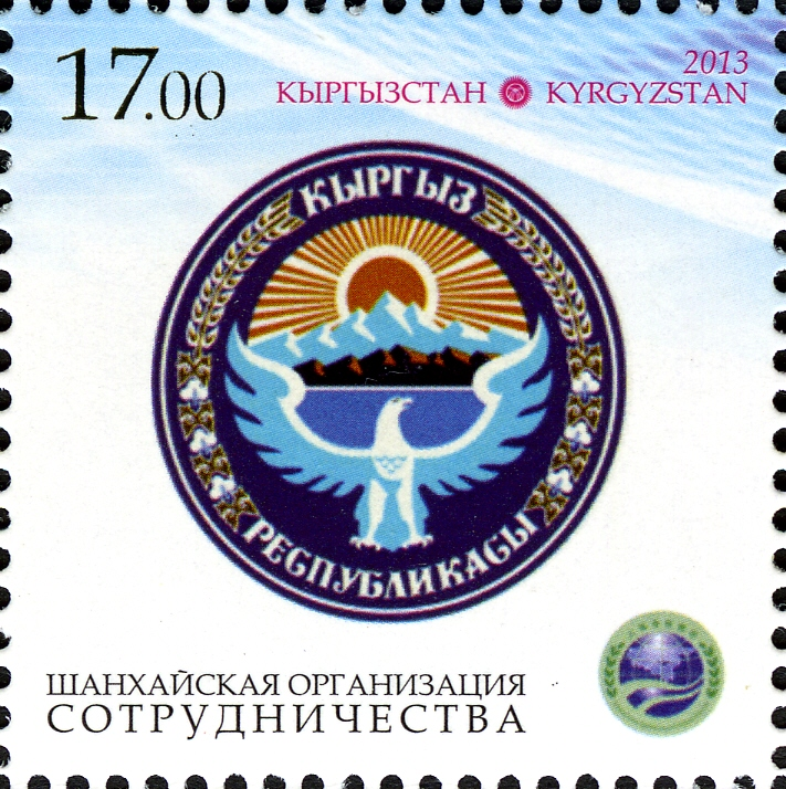 Stamps of Kyrgyzstan, 2013